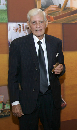 Photo of Rolando Reyes, Sr. at New Orleans trade show